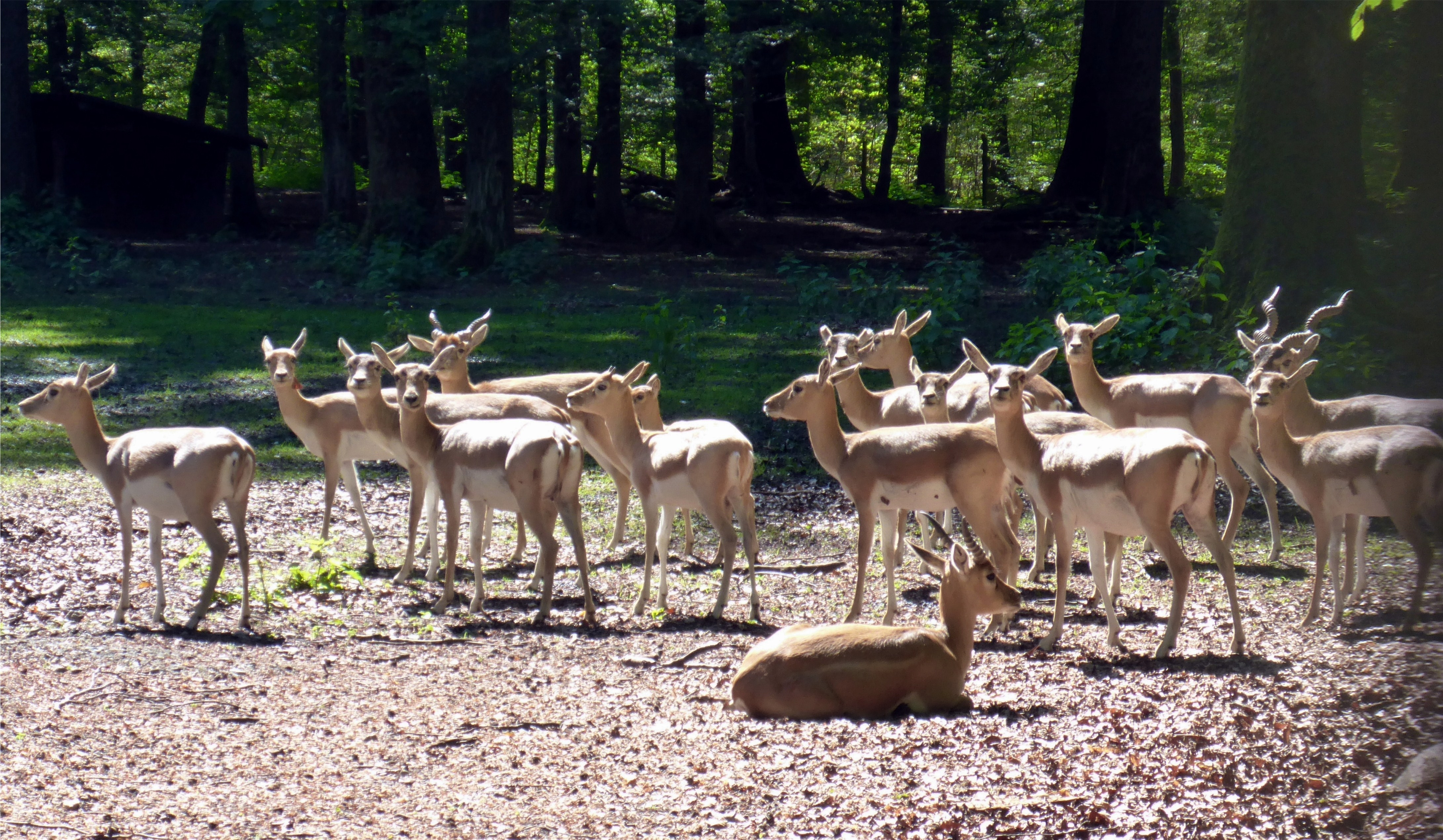 Landschaftsschutzgebiet „Oberwald“ is a Protected landscape area in Baden-Württemberg, Germany.